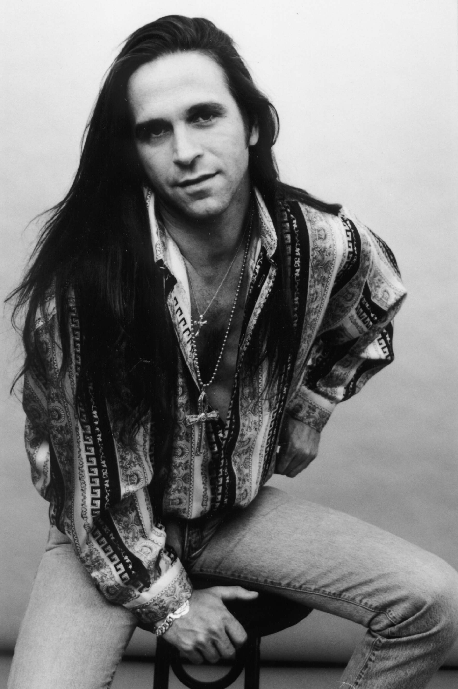 Promotional picture from Jackal Records